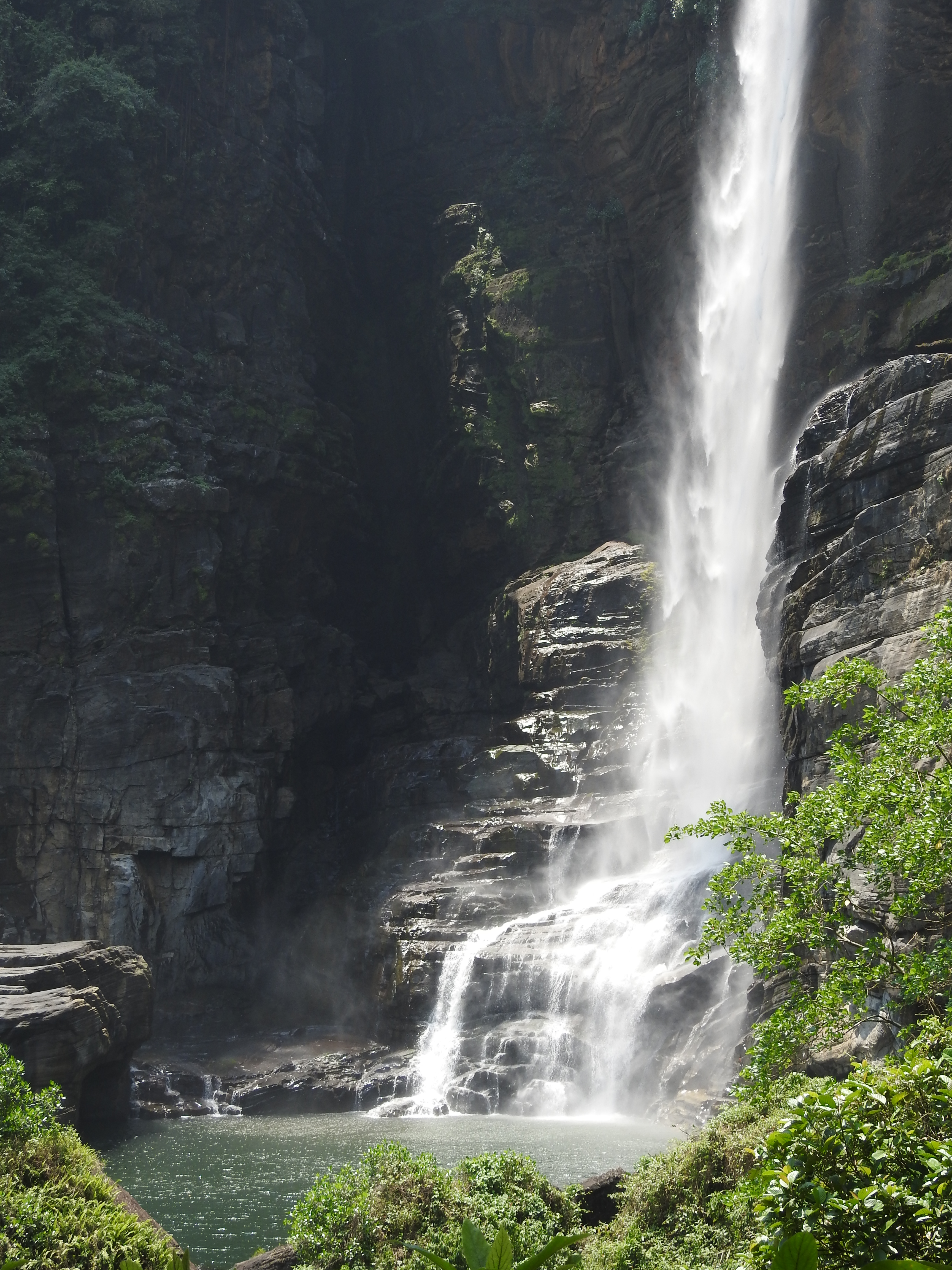 This photo was taken as part of a photo project by Wikimedia Community User Group Sri Lanka, covering current/future hydroelectric dams (and its surroundings) in the Central and Sabaragamuwa provinces of Sri Lanka. User:Rehman handled the photography, while User:Azeez and User:PasinduBR handled the logistics/planning of routes. Description of photo: The base of Laxapana Falls. Further information on the subject(s) of the photograph may be found in the category/ies of this file.